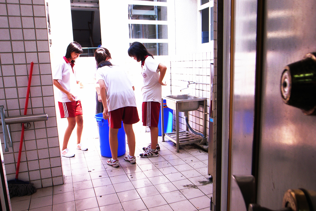 Junior High School students' cleaning time in Taichung City, Taiwan.